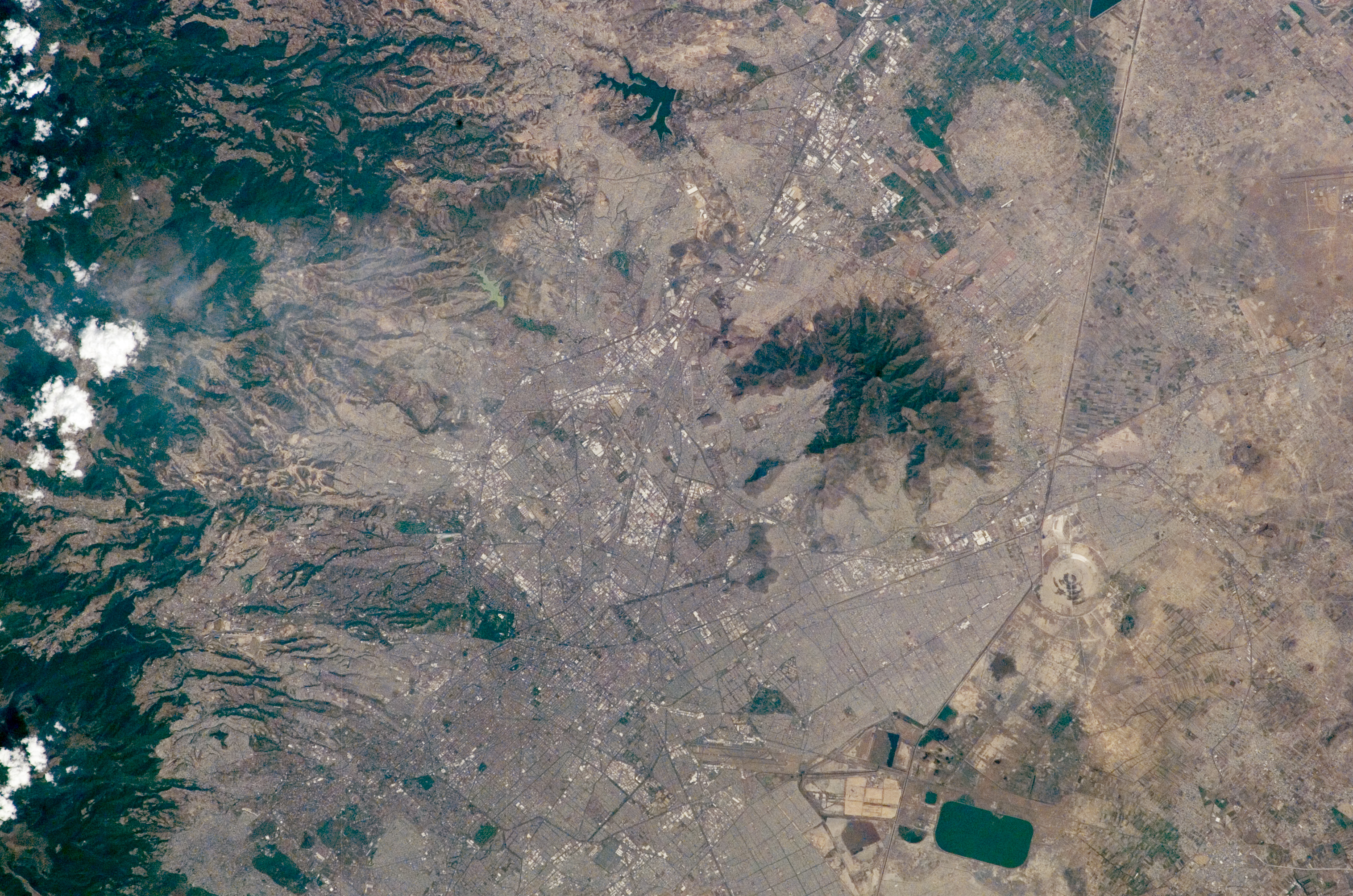 Satellite Photo of Mexico City, Mexico taken from the International Space Station (ISS) during Expedition 6 on April 17, 2003.